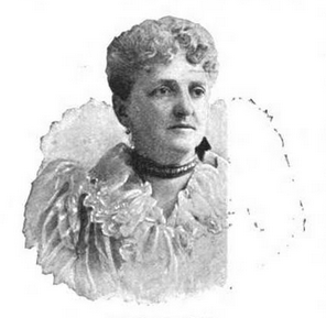 National Council of Women of the United States